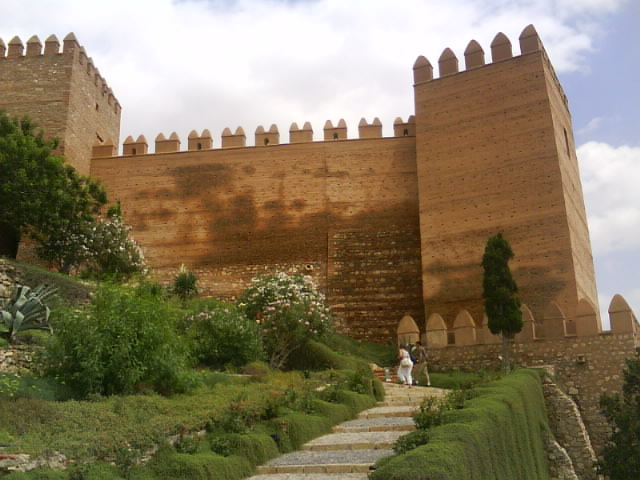 Alcazaba fortress - Almeria